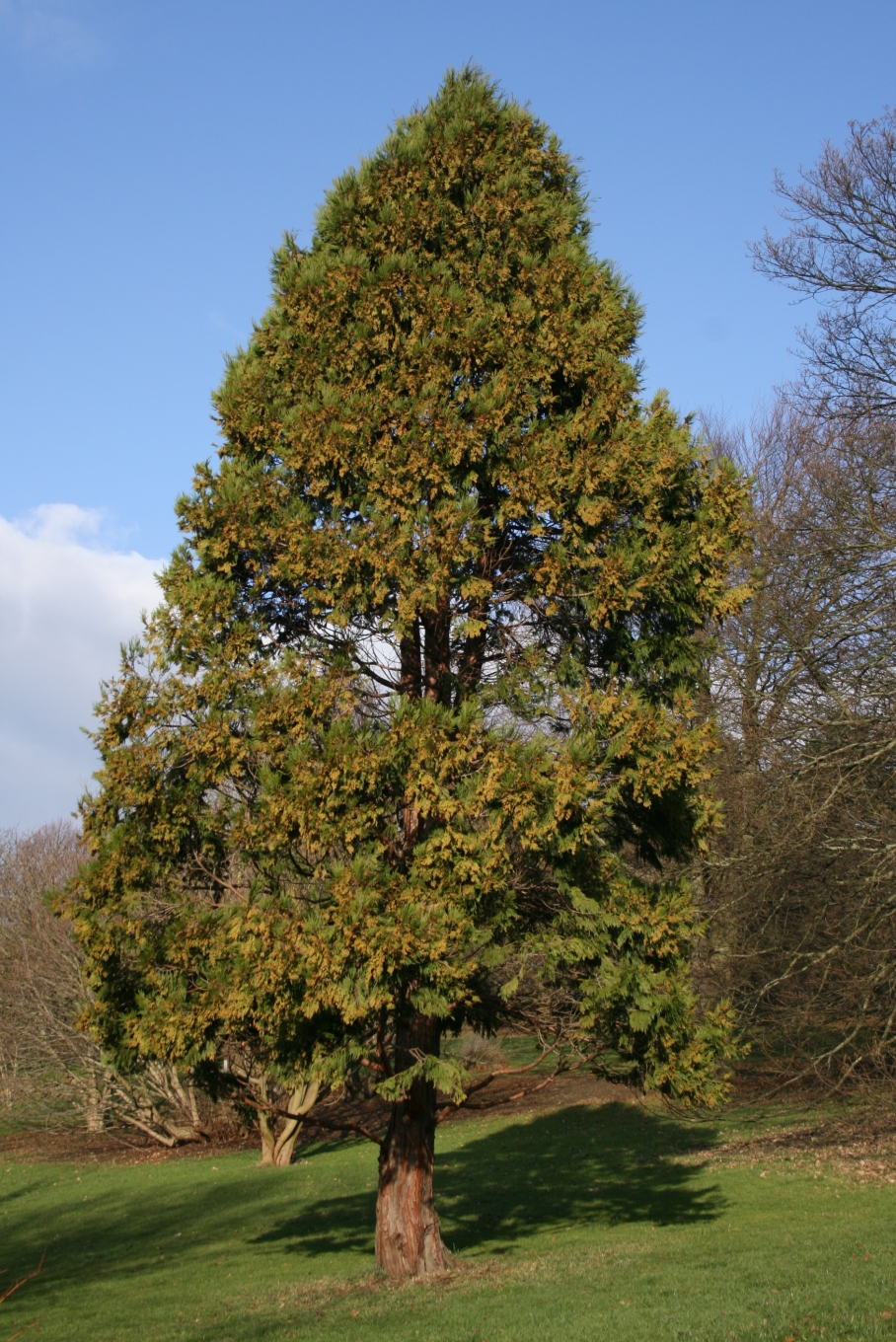 Calocedrus decurrens: Habitus